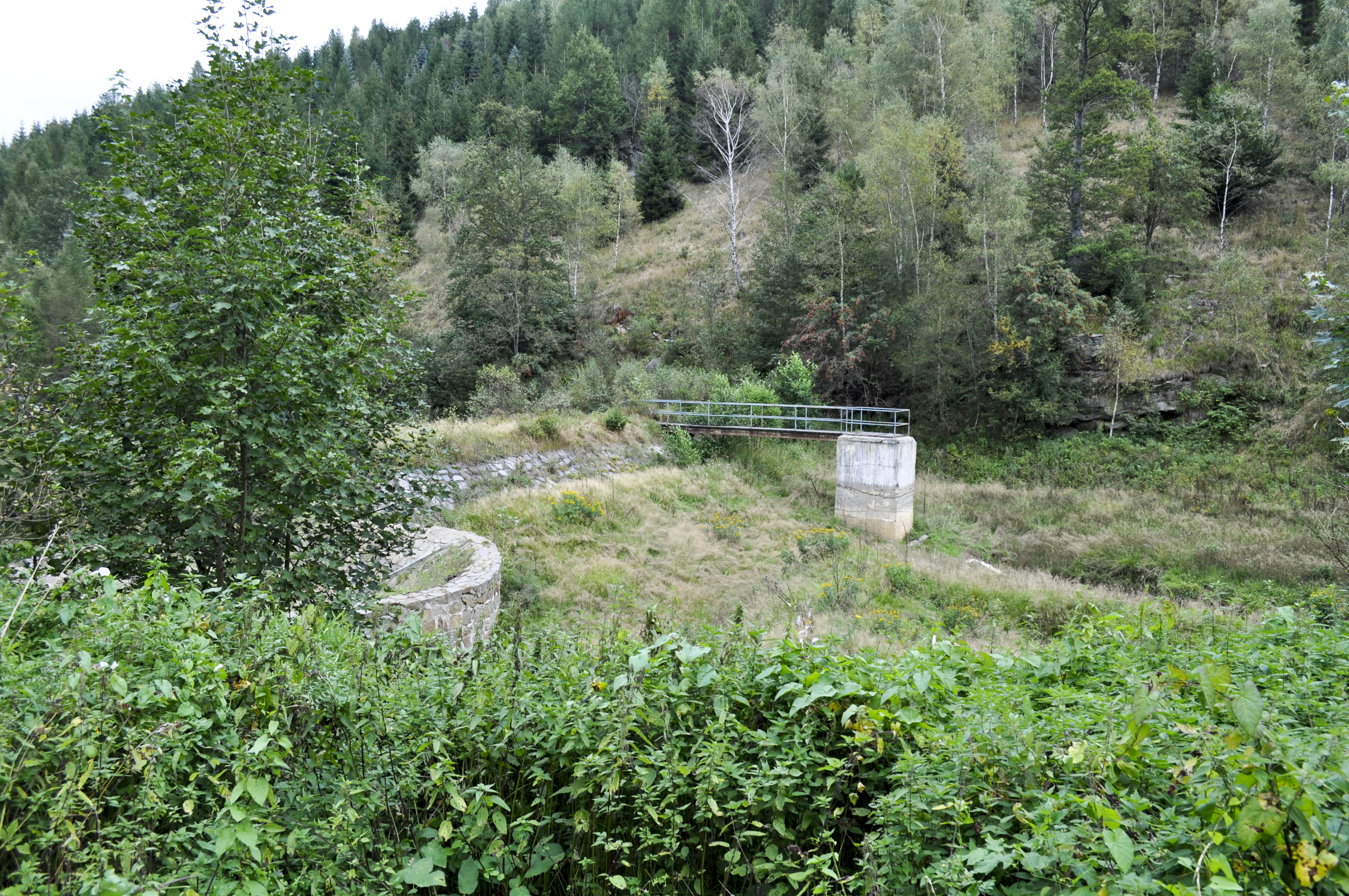 Gabrielina Huť - reconstructed water reservoir